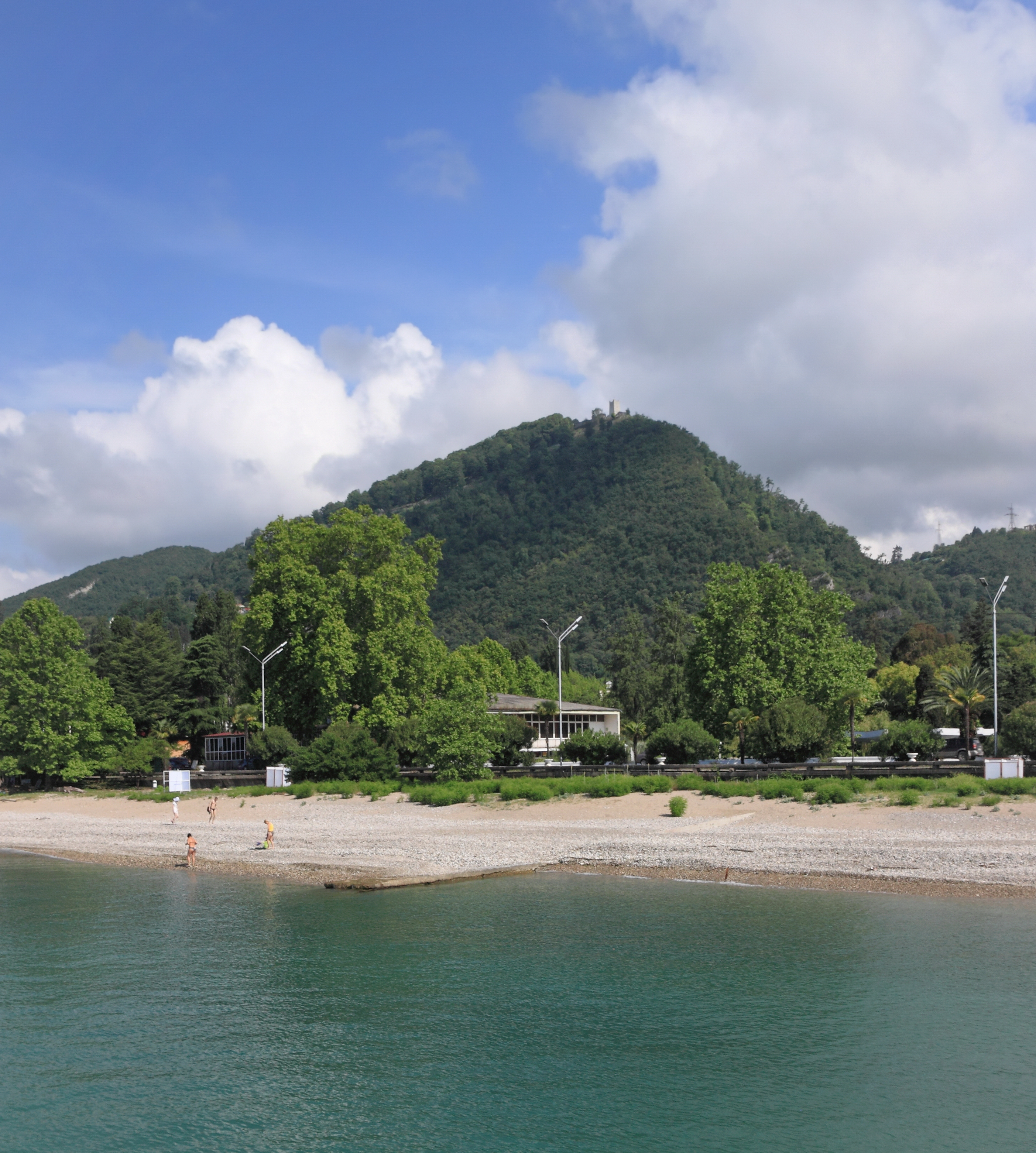 The beach and Iverian Mountain. New Athos, Gudauta District, Abkhazia.